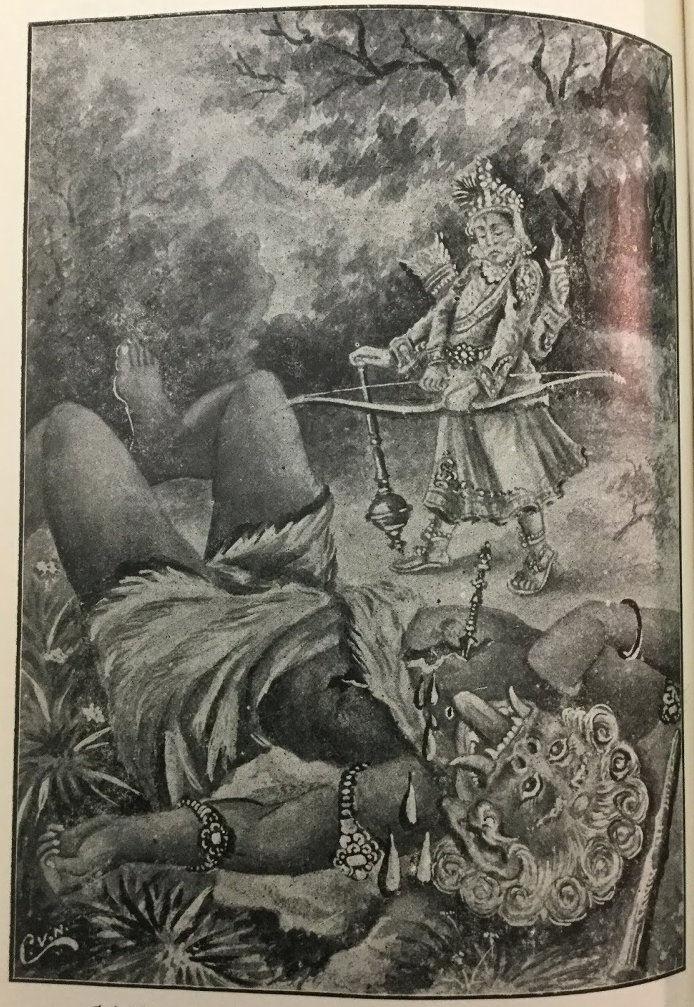 RARE PICTURES FROM A 100 YEAR OLD BOOK IN THE BRITISH LIBRARY, LONDON.